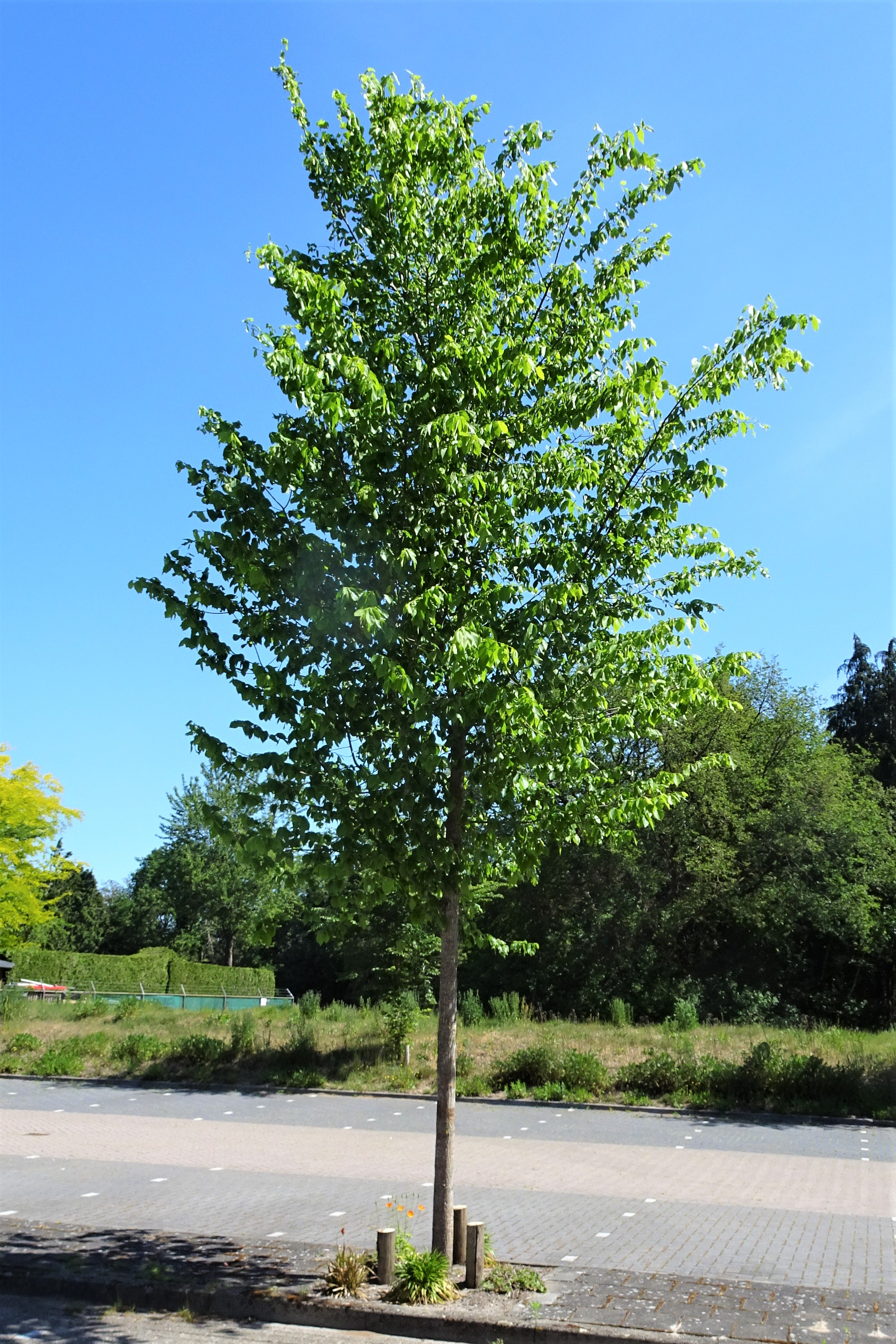 Ulmus americana 'New Harmony' photographed in The Netherlands